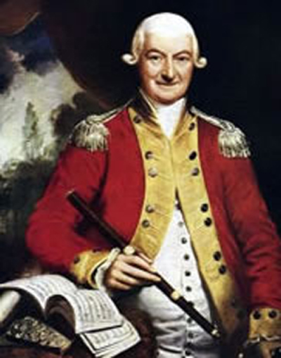 General John Reid (also known as John Robertson) (1721-1807), British army general and founder of the chair of music at the University of Edinburgh, John Reid University of Edinburgh website.